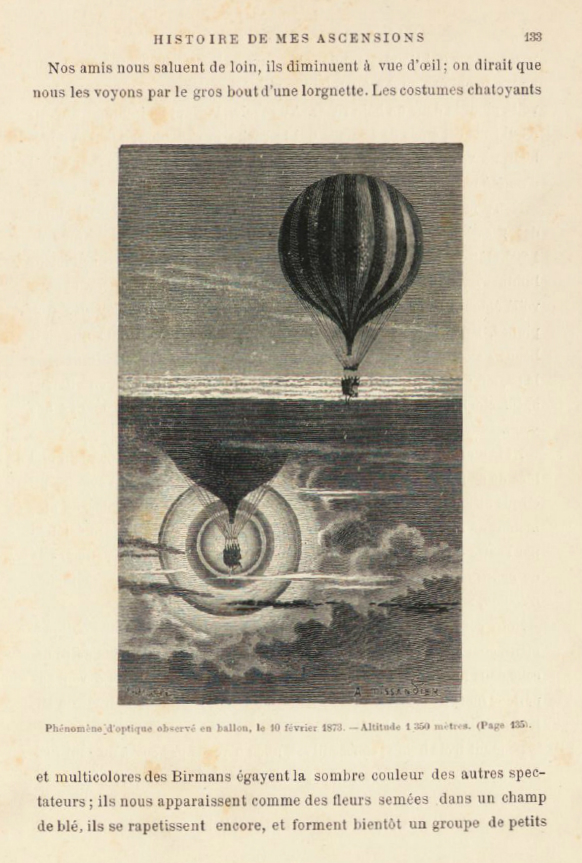 19th century drawing of a glory observed from a hydrogen balloon by the Tissandier brothers.